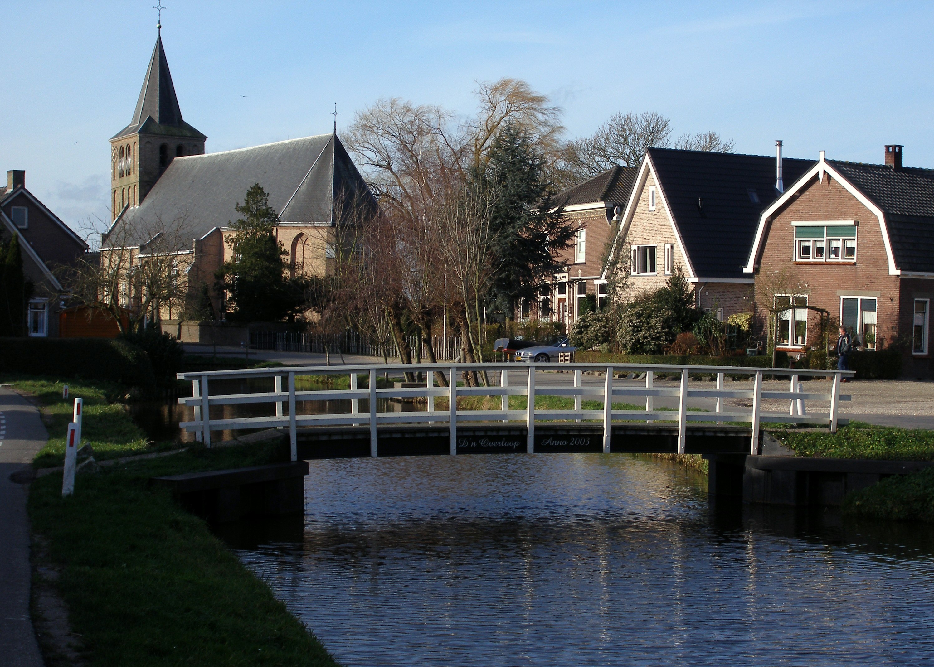 Church of Goudriaan. It is the oldest building of the village; the tower dates from the 14th century. The church was heavily refurbished in 1965.